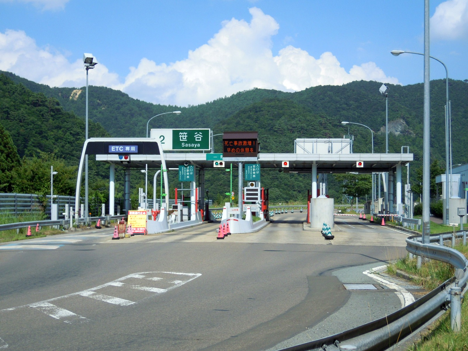 This Interchange, Sasaya Interchange, is on Yamagata Expressway, in Kawasaki Town Miyagi Prefecture, Japan.